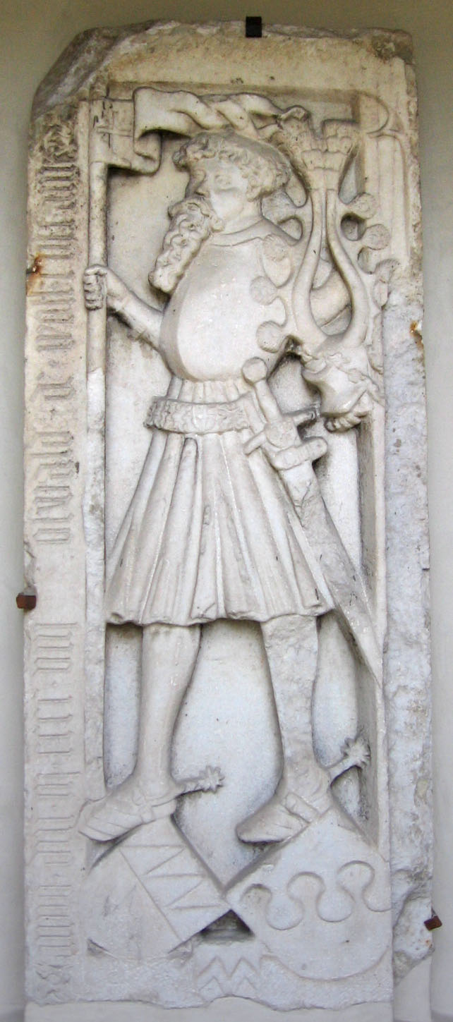 Oswald von Wolkenstein's memorial stone, dated 1408 (Bressanone, Italy)